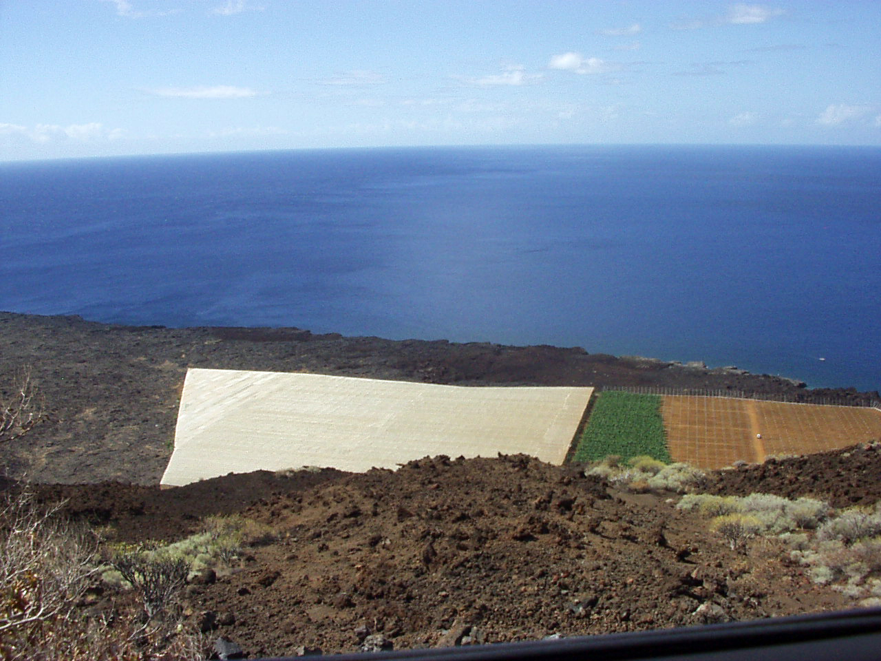 Plantation on "sorribas" close to La Restinga, El Hierro, Canary Islands.